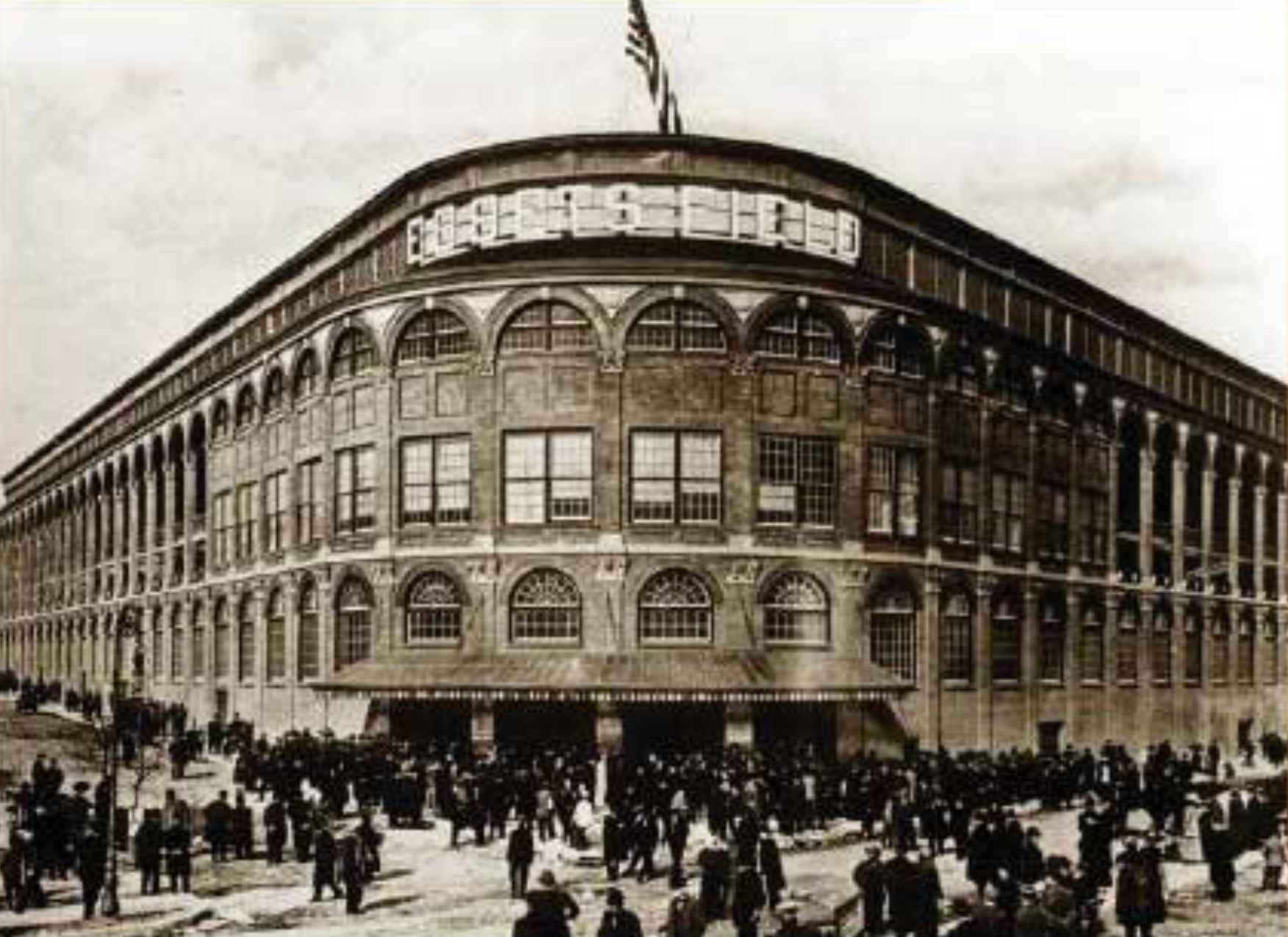 20:59, 6 April 2006 . . SportsMasterESPN . . 1753×1275 (258,386 bytes)